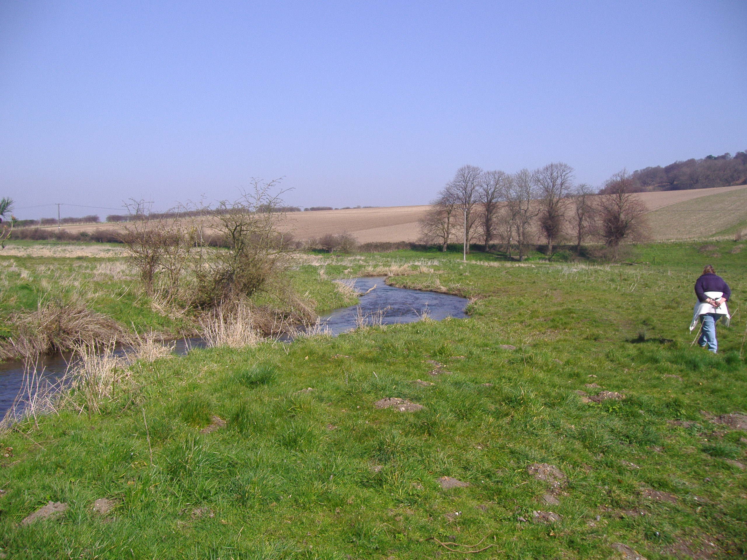 A Digital Photograph of the River Glaven at Glandford